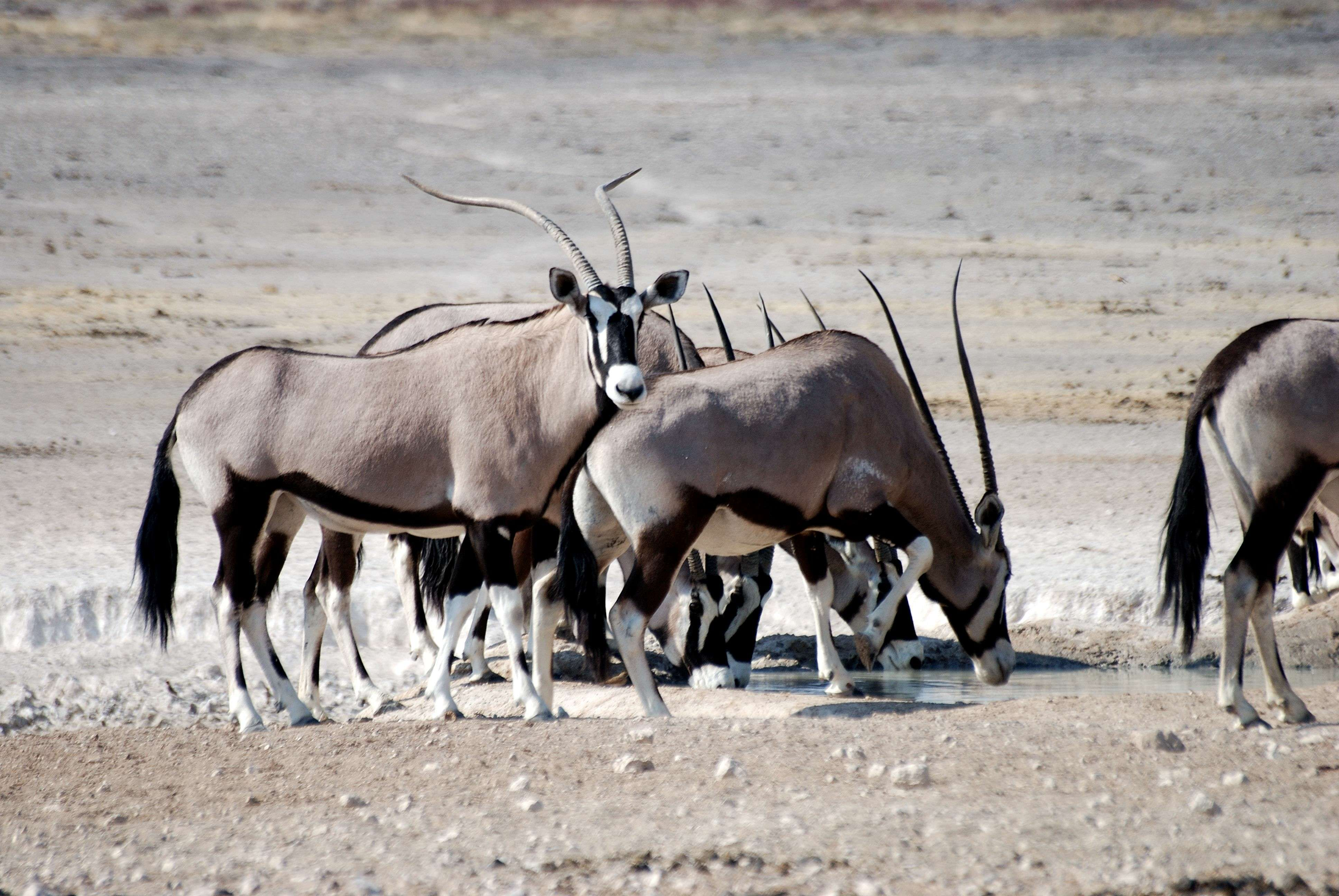 Oryxes at Etosha National Park